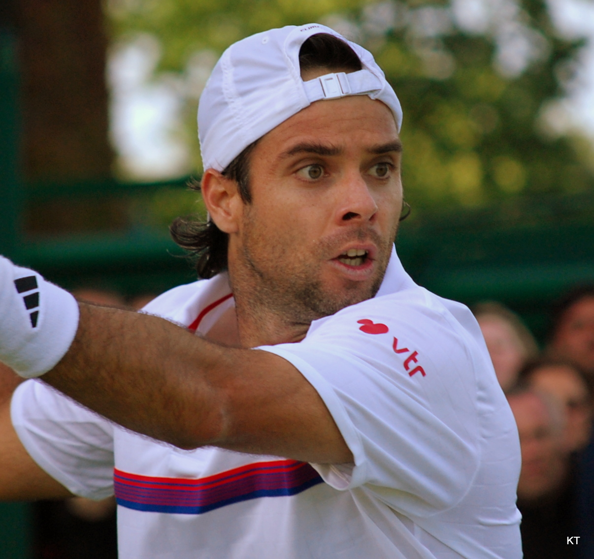 Fernando Gonzalez during his first round match with Alexandr Dolgopolov. Gonzalez won 6-3, 6-7, 7-6, 6-4. Day 2 of Wimbledon 2011.